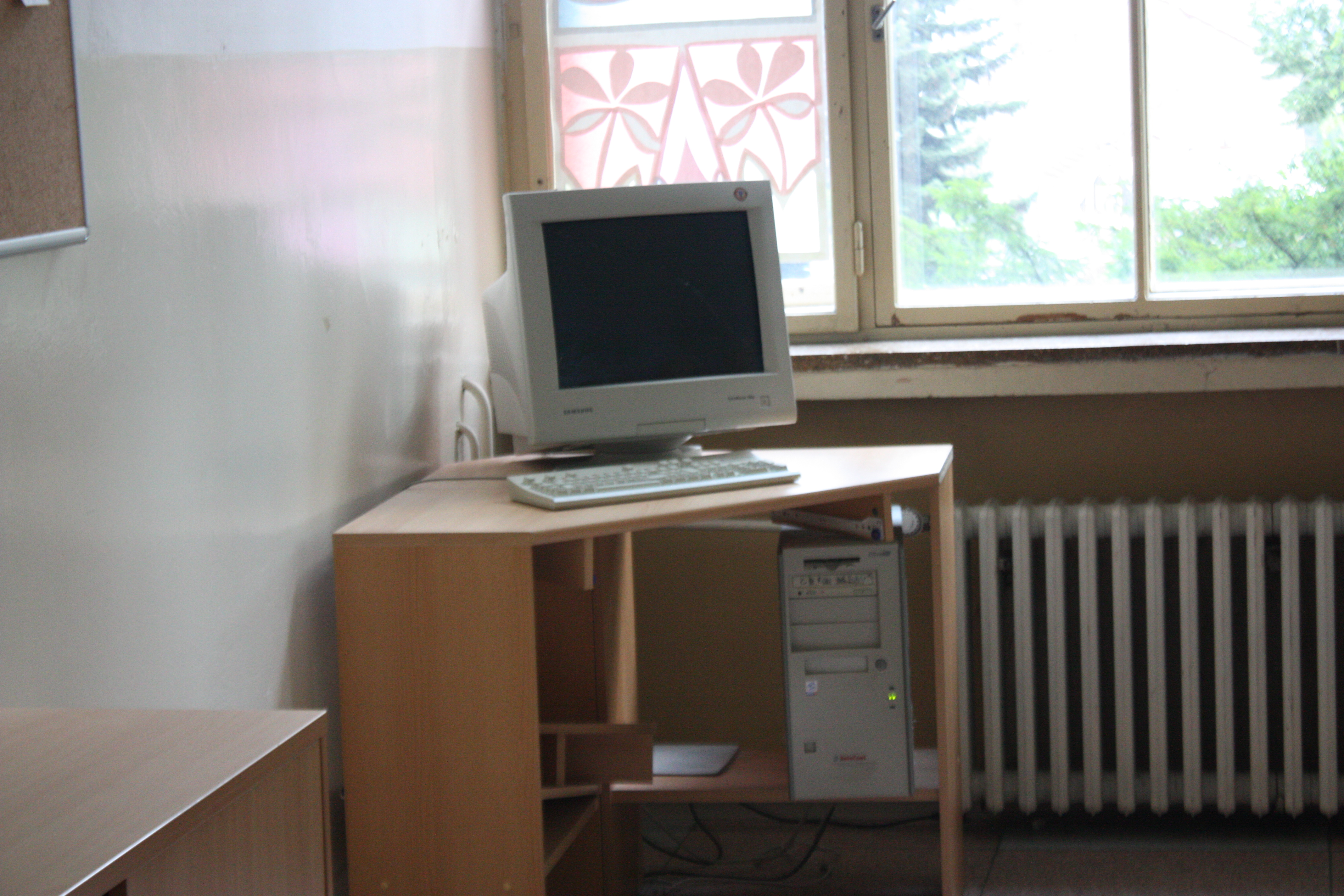 Gymnázium Brno-Řečkovice, in every class is computer